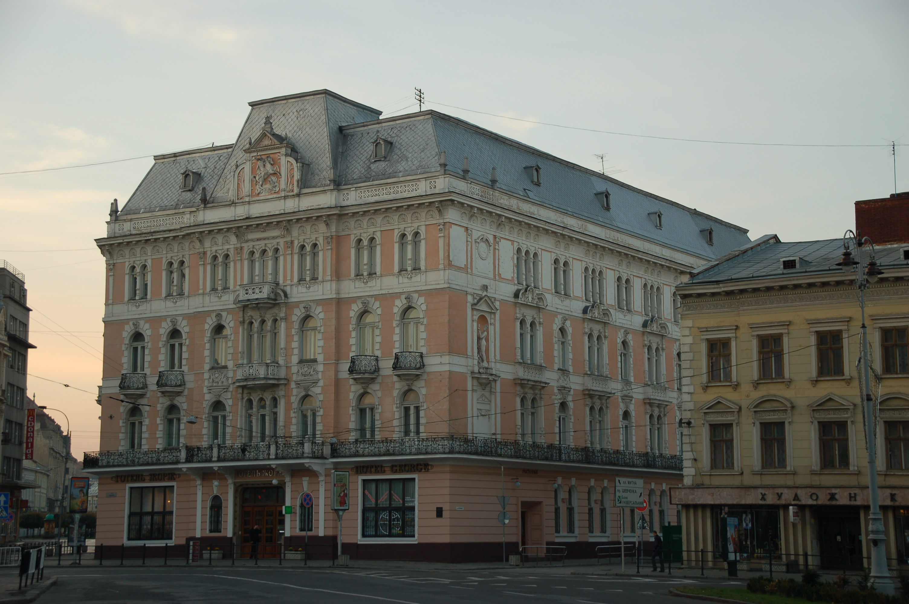 Lviv: Hotel George, Freedom Avenue, in the early morning